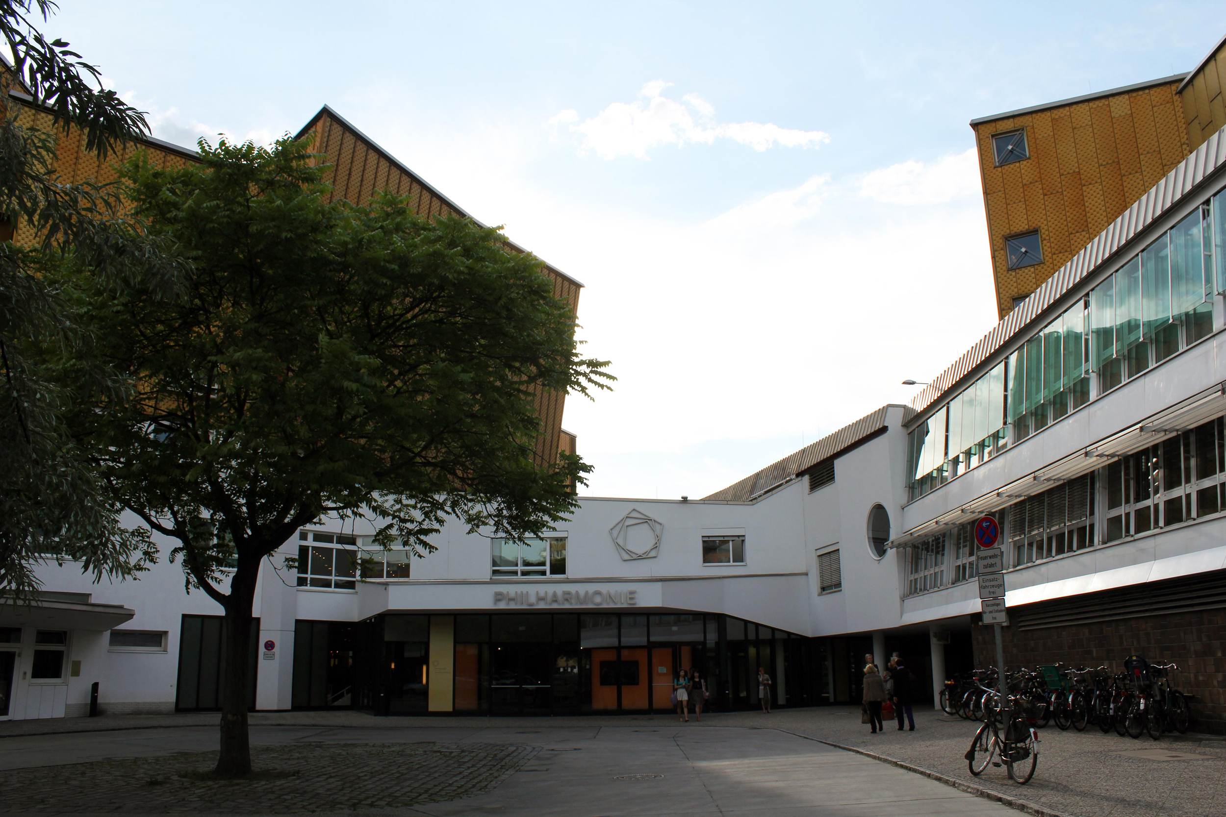 Berliner Philharmonie 2012 summer